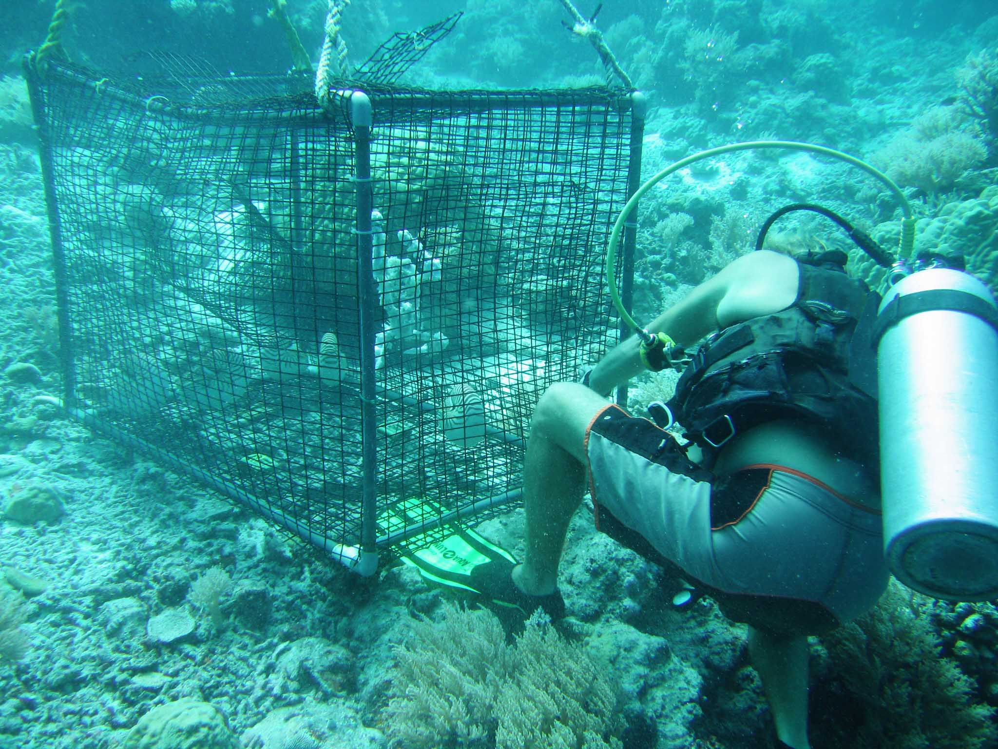 Palau nautilus in cage after being captured. Palau, Micronesia. photo by Lee R. Berger.